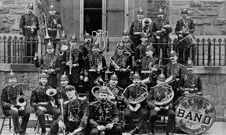 Repasz Band in 1878.